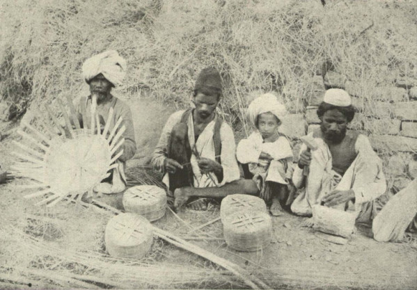 Basket Makers of Punjab